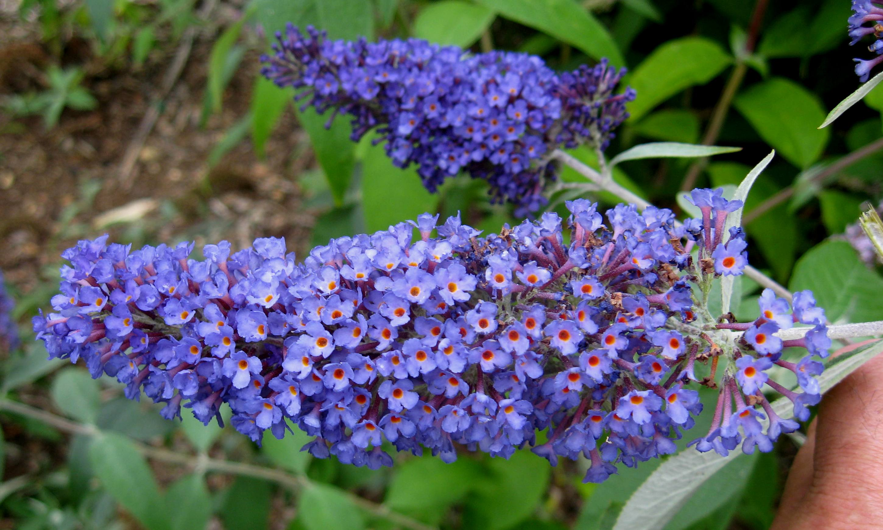 Photo taken at Longstock Park, UK, August 2012.